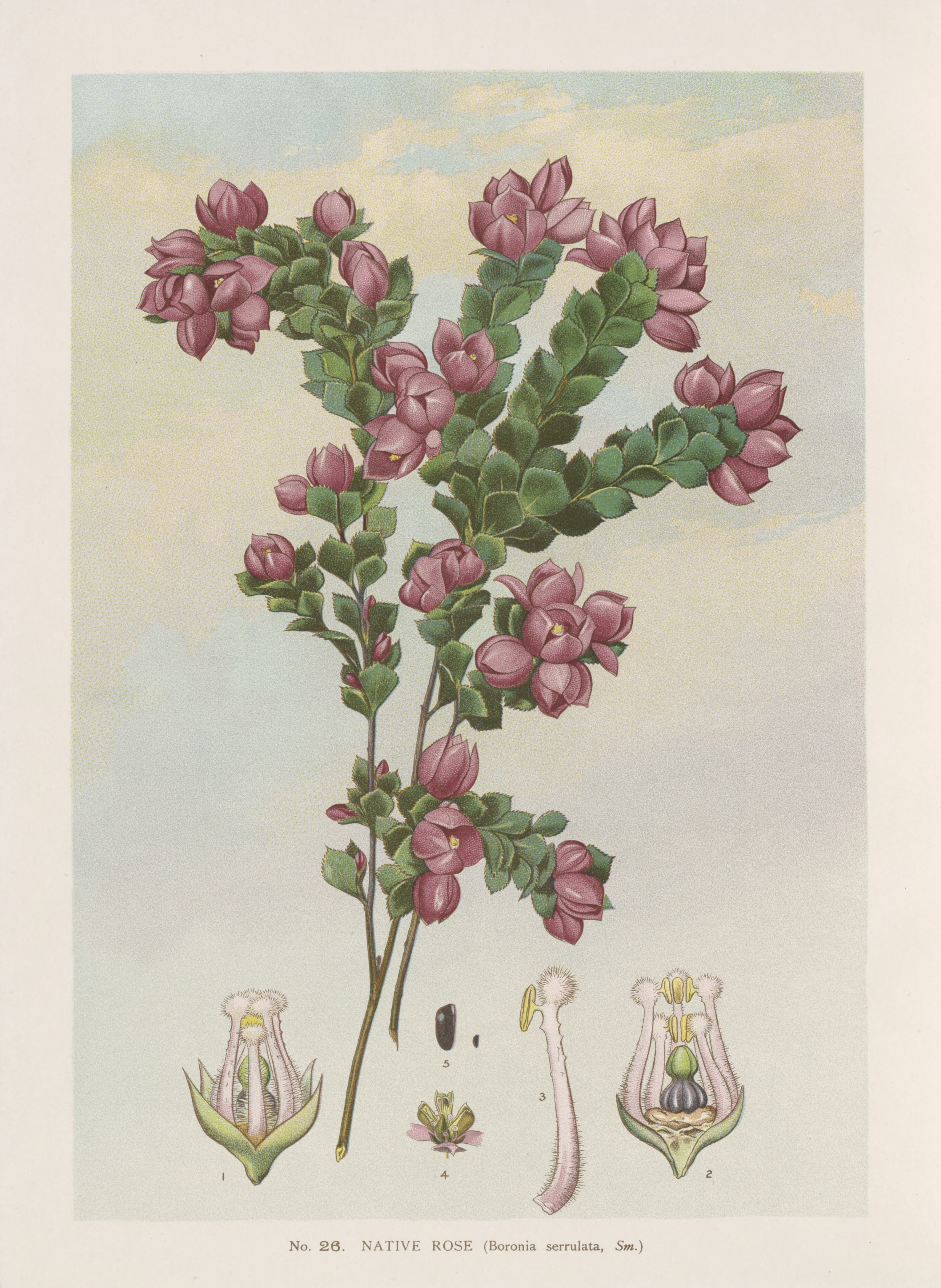 Boronia serrulata (Native Rose) From: The Flowering Plants and Ferns of New South Wales - Part 8 (1898) by J H Maiden. NSW Government Printing Office.